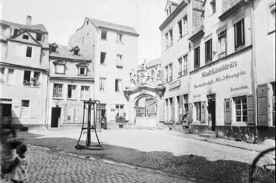 Weißer Gasse in Koblenz